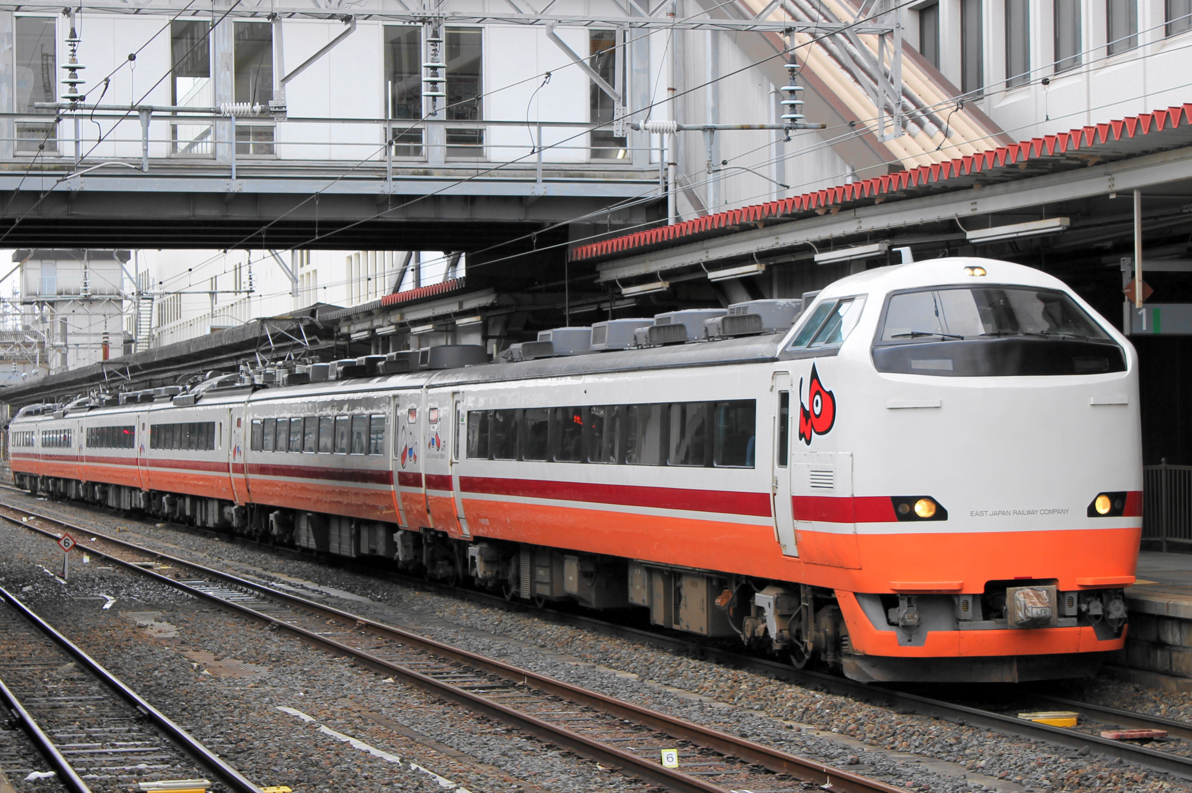 JR East 485 series EMU set G55/58 on an Aizu Liner service at Koriyama Station